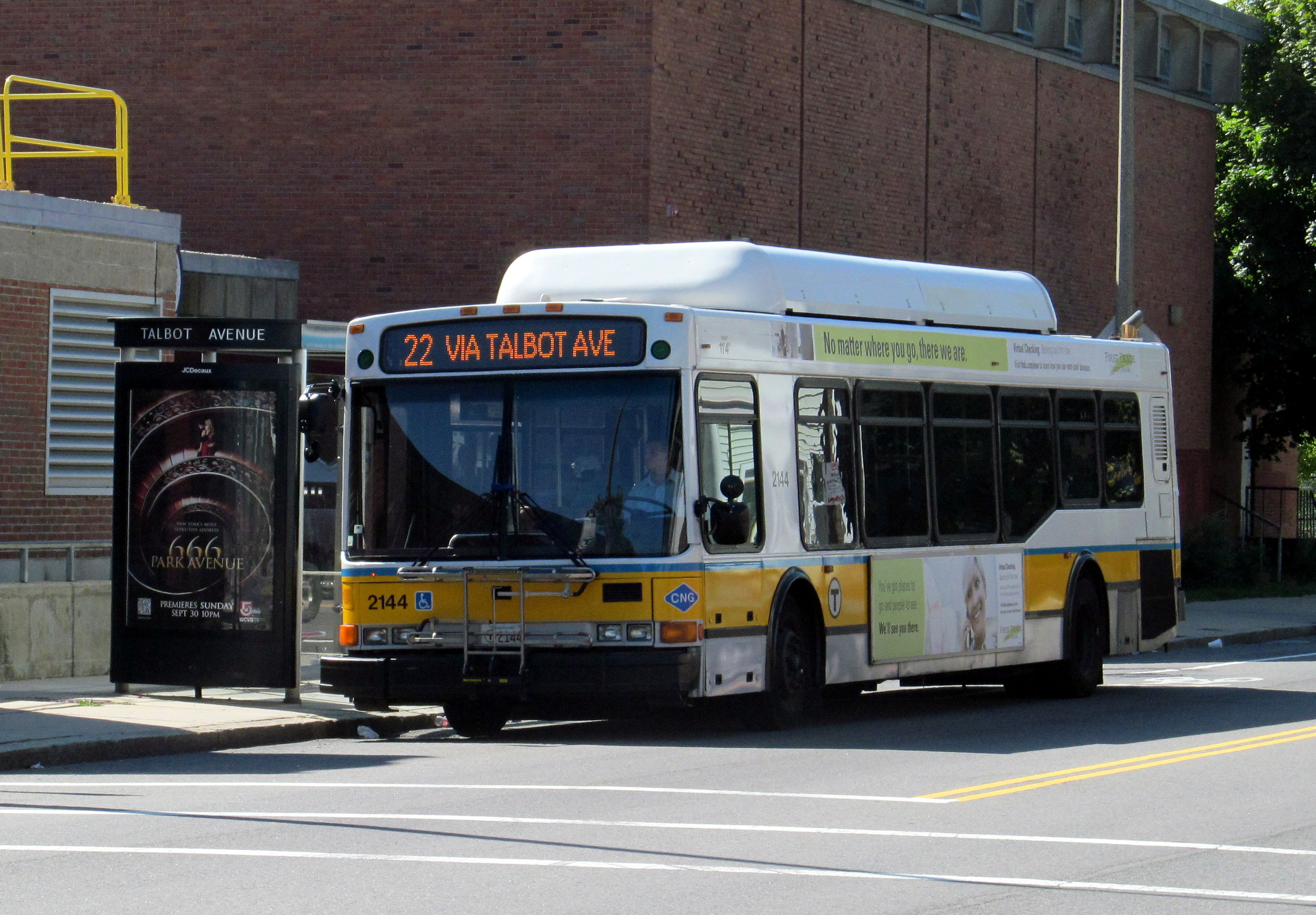 An MBTA bus operating on Route #22 stops at Perkins Community Center on Talbot Avenue in Dorchester, Boston.